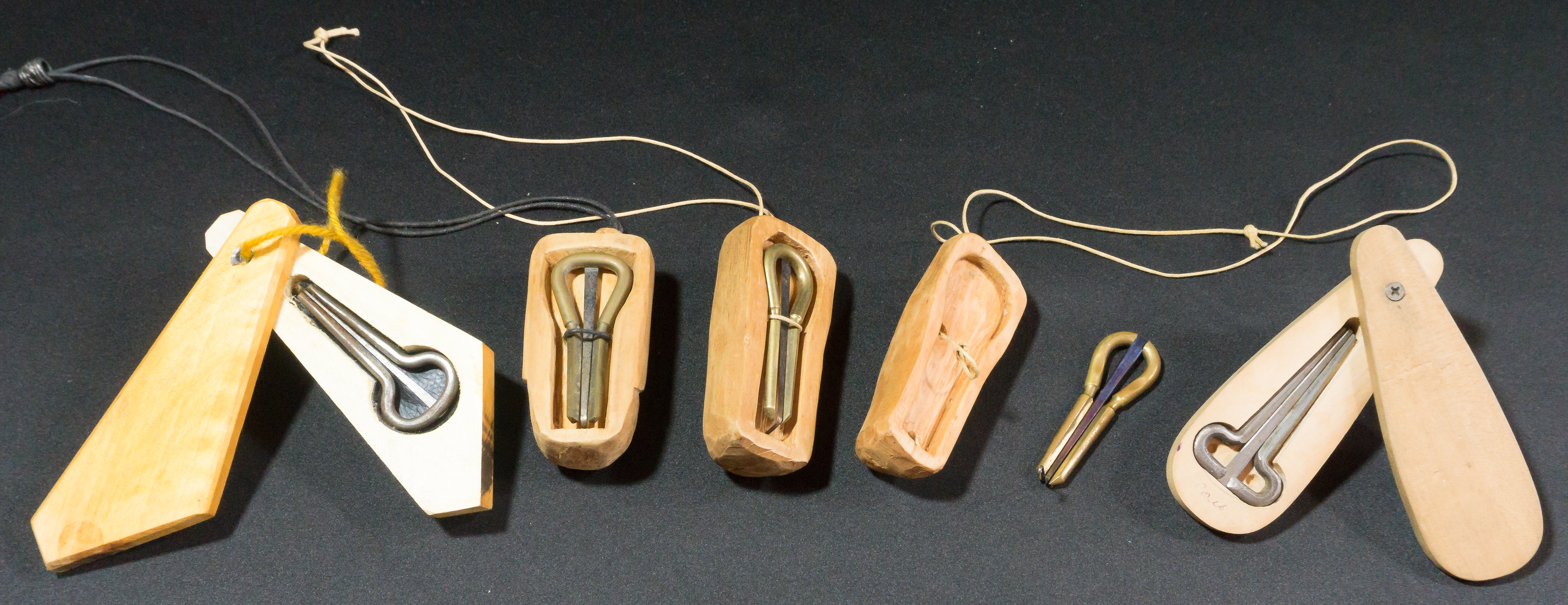 Wiki loves Music - Hamburg 2017: Musical Instruments up close. Jews harp